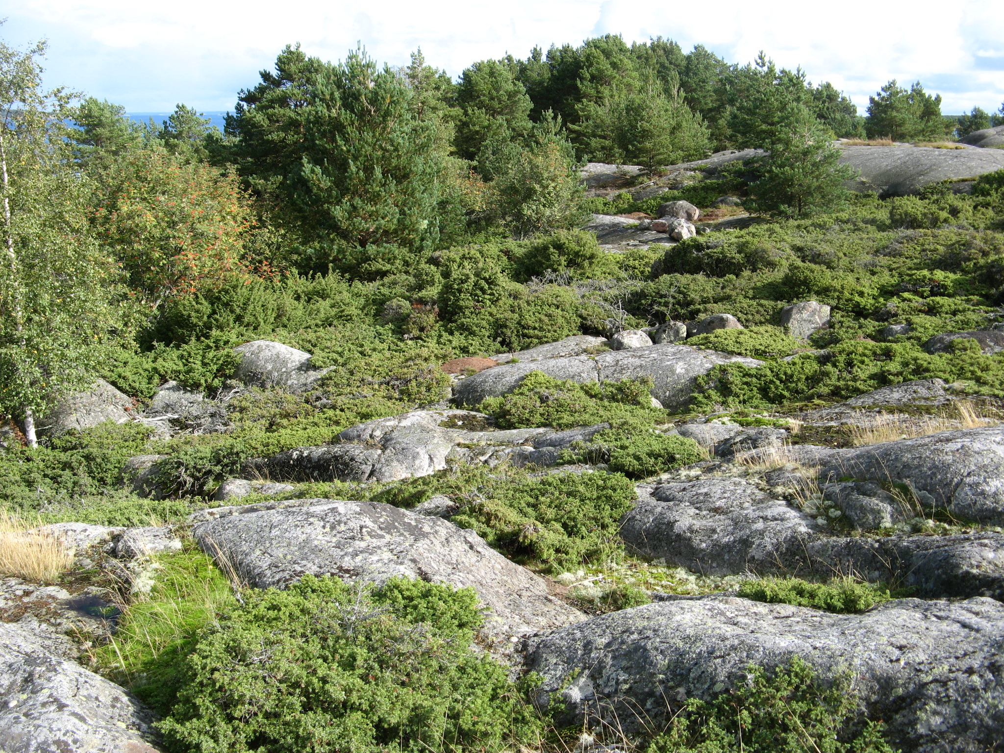 Birch, rowan, pine and dwarfen junipers on Kråkskär in the Archipelago national park.